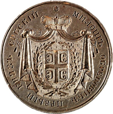 Miloš Obrenović First Serbian Prince; Seal of Miloš Obrenović, Prince of Principality of Serbia.